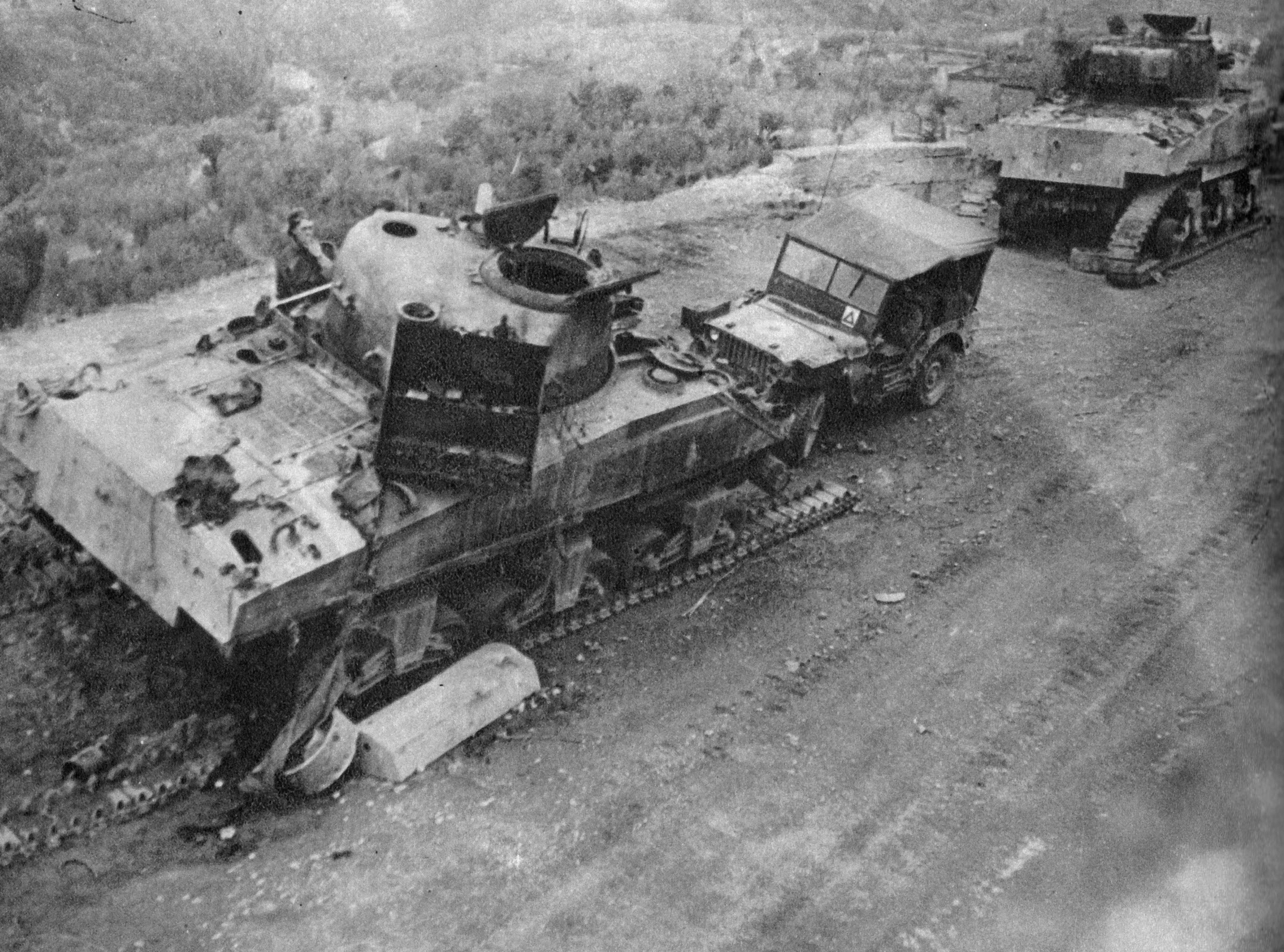 6 SA Armoured Division Sherman tanks disabled in the battle to take the Perugia highlands, Italy. 1944